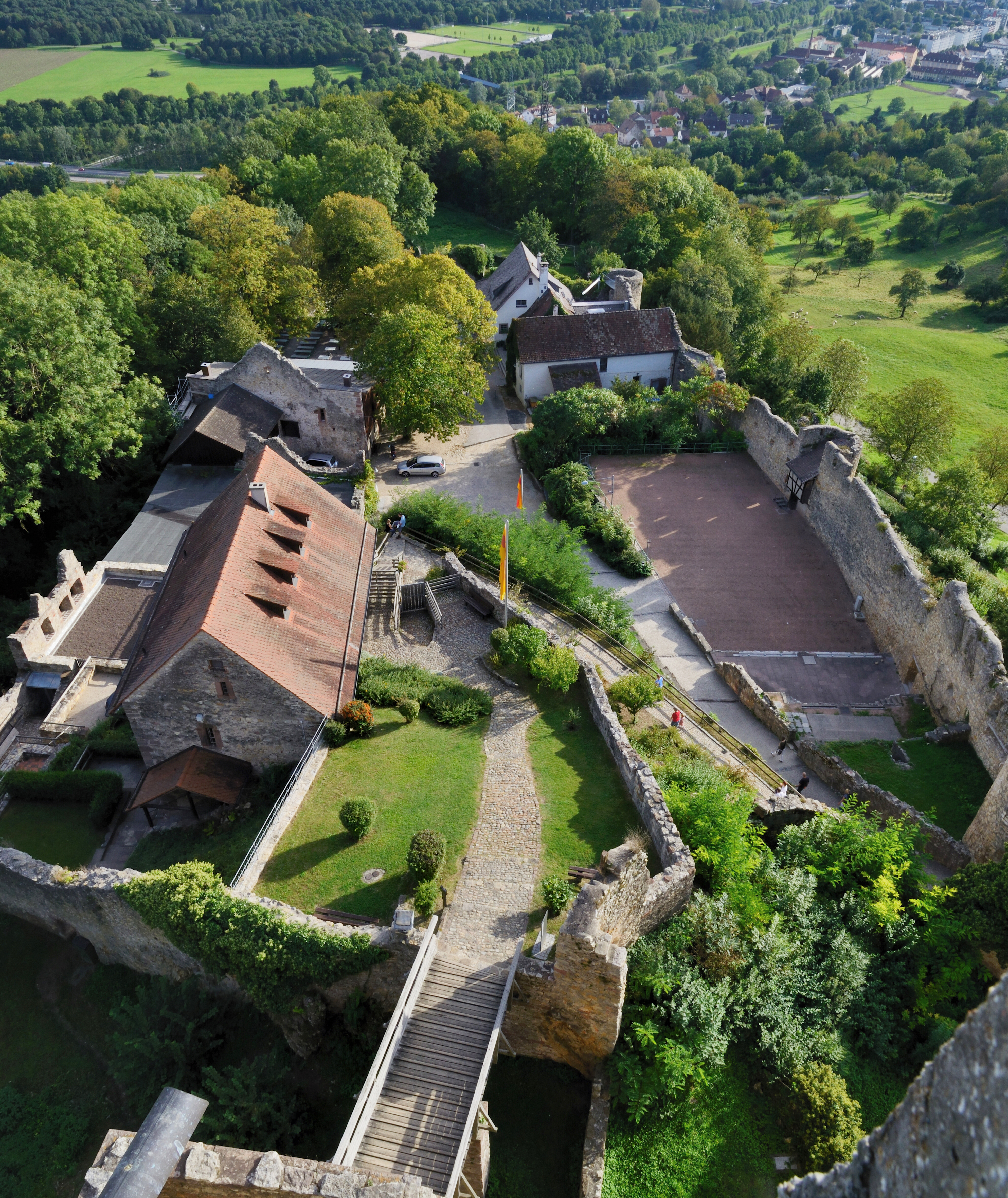 Rötteln Castle: upper part